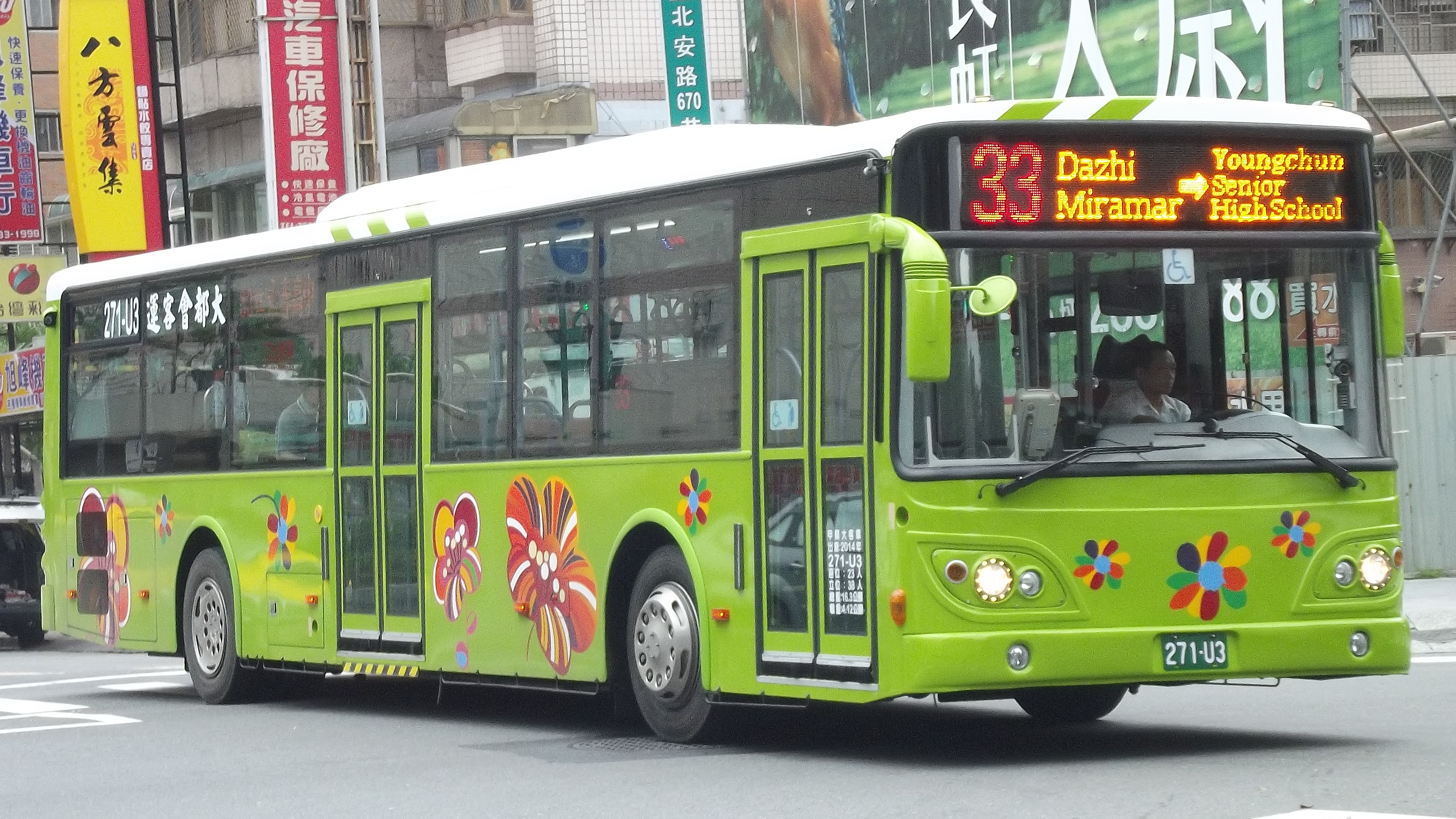 Metropolitan Transport - Daewoo BS120CN.中文（台灣）: 大都會客運五期BS120CN。